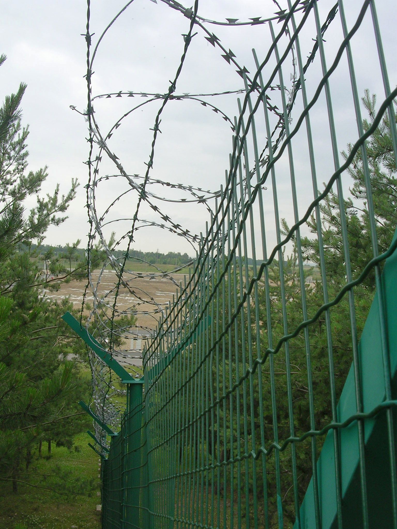 Nelahozeves-Podhořany, Mělník District, Central Bohemian Region, the Czech Republic. Central oil deposit of the Czech Republic.